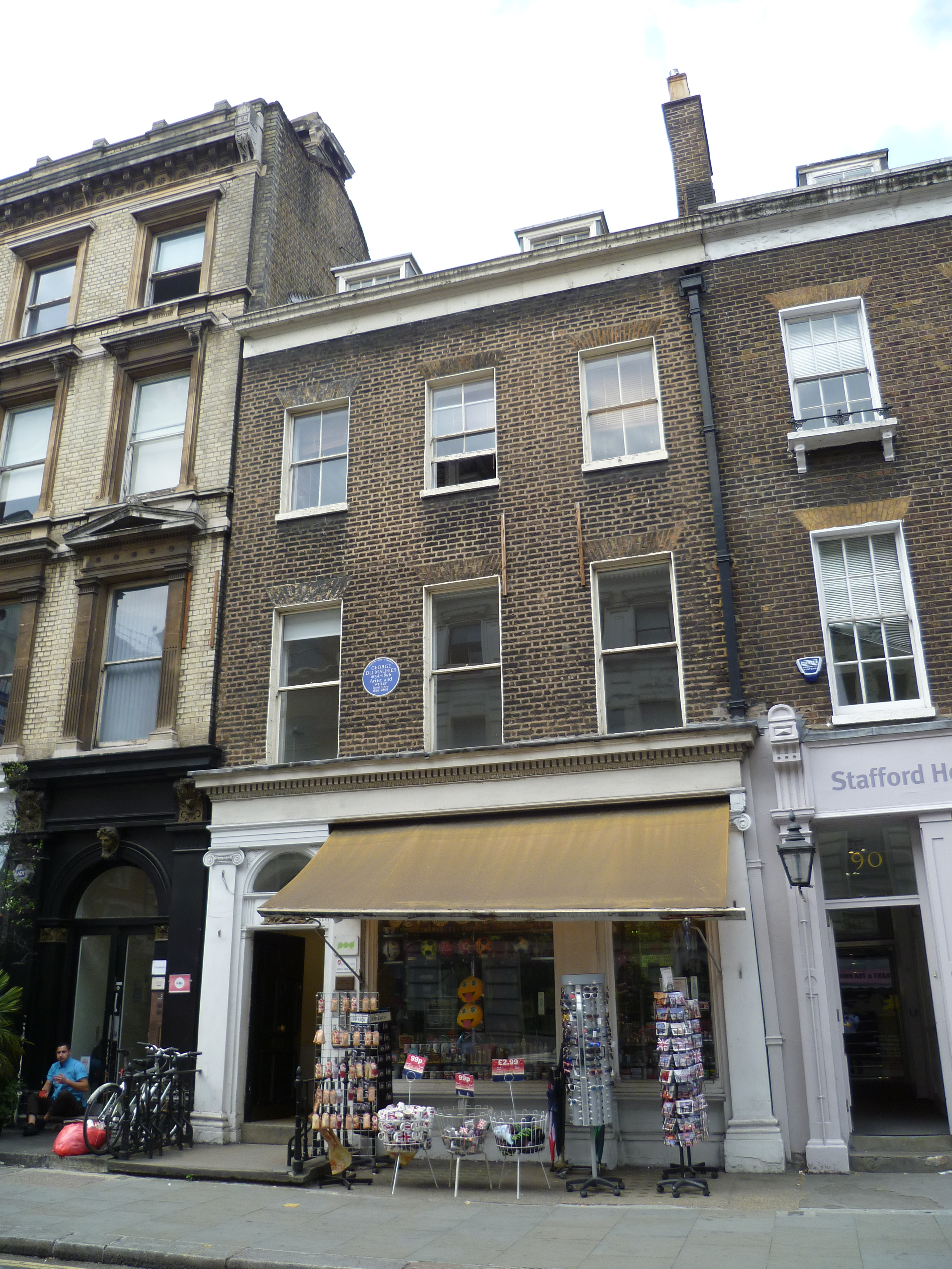 London